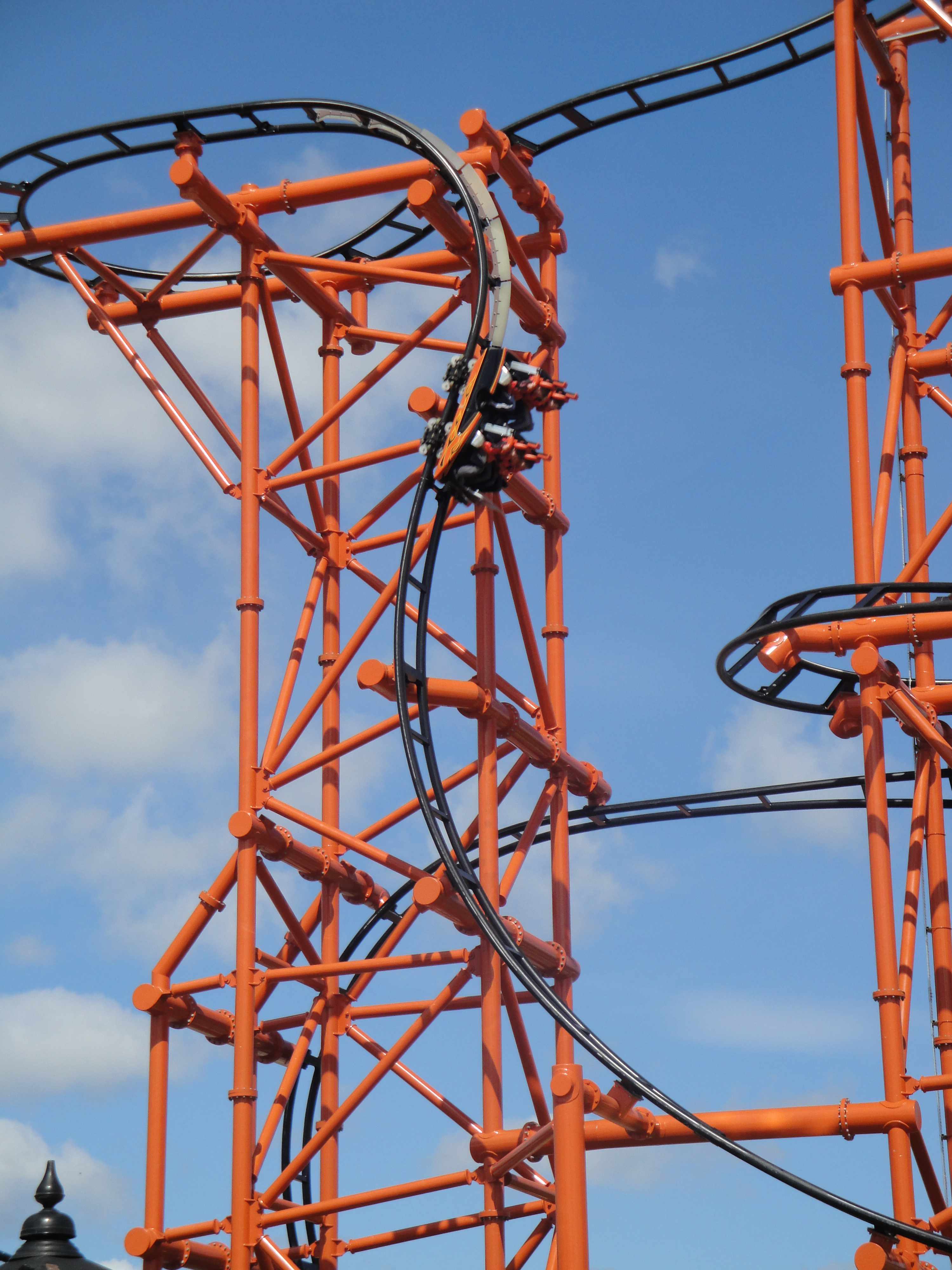 Detail shot of the "Mumbo Jumbo" roller coaster in Flamingo land in North Yorkshire, England. The picture shows the Guiness world record holding steepest drop of 112°.